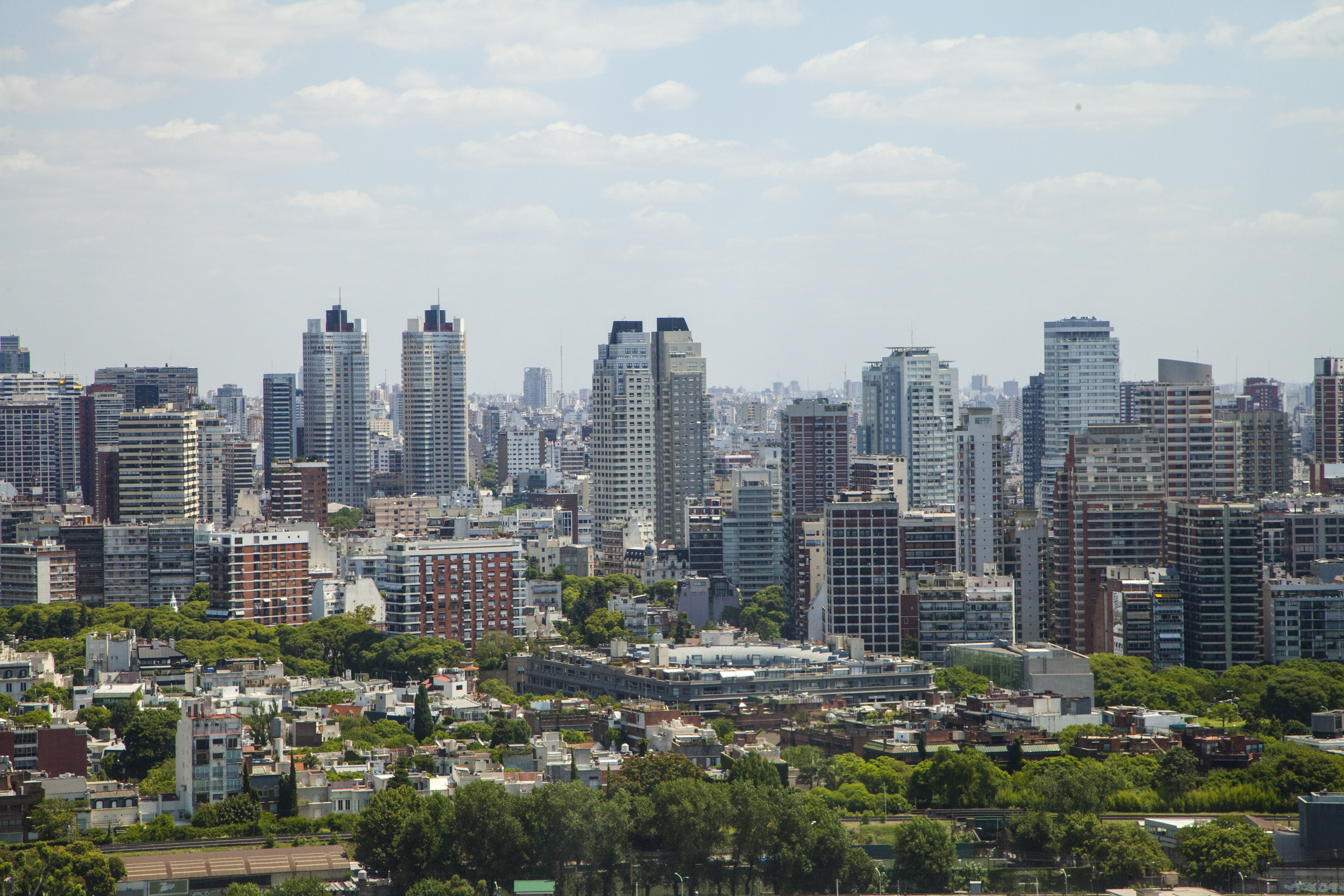 An aerial view of the Barrio Parque section of the Palermo ward in Buenos Aires (Argentina). Photo: Fernanda LeMarie - Cancillería del Ecuador.